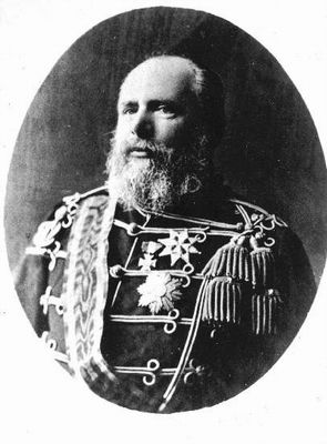 Portrait of King William III, King of the Netherlands and Grand Duke of Luxemburg.